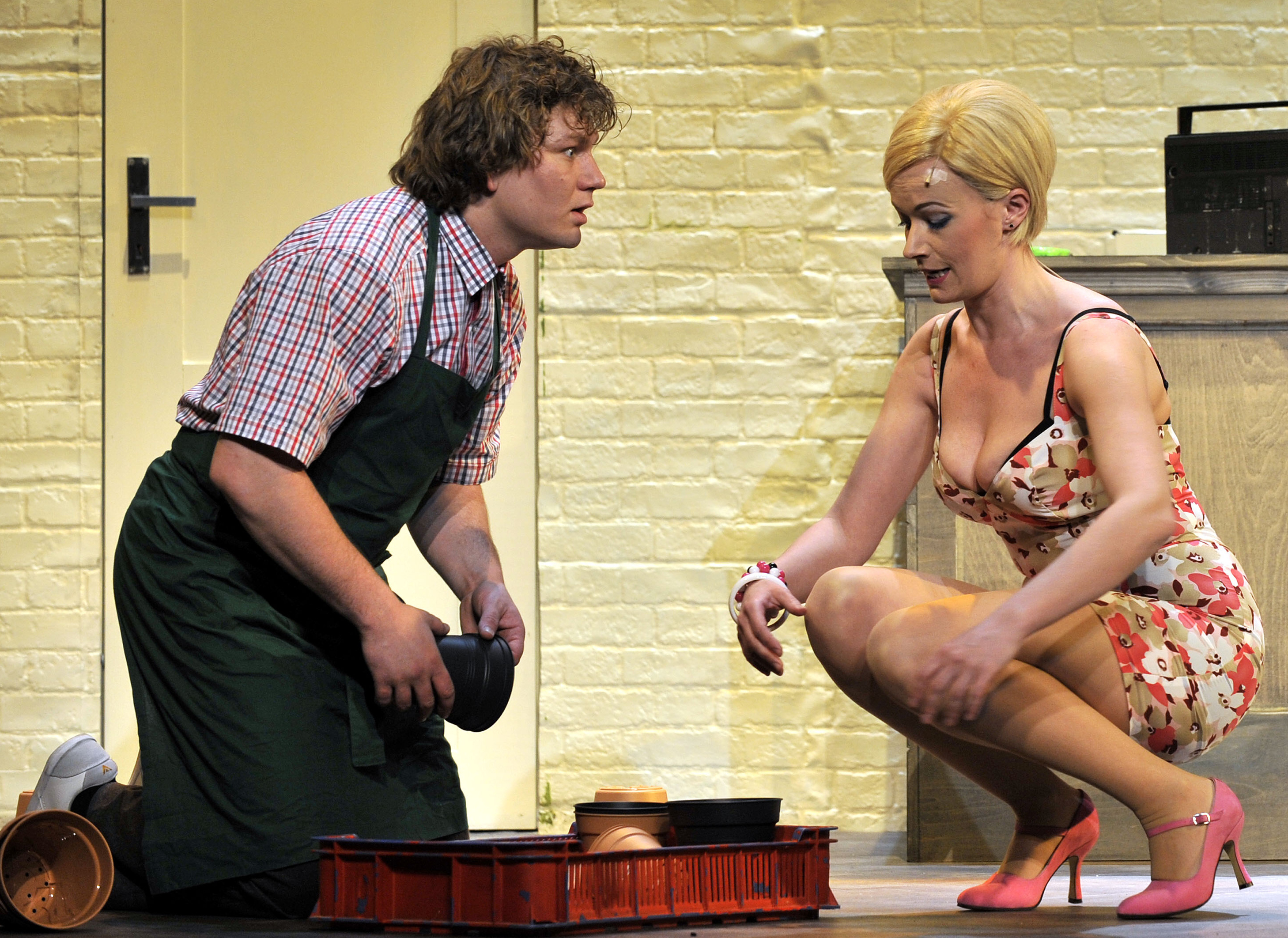 Little Shop of Horrors Czech Republic